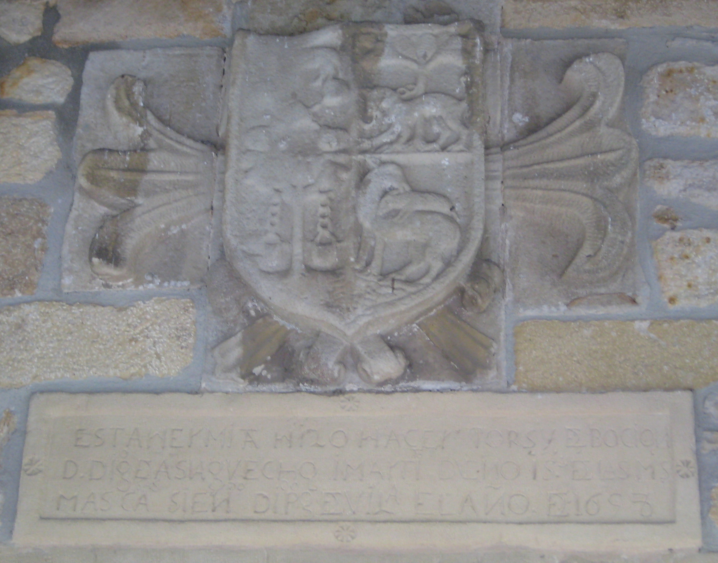 (Photo taken 2007-10-06). Coat of arms and inscripcion on the façade of Saint Anthony's hermitage in Martiartu, Erandio, Biscay.